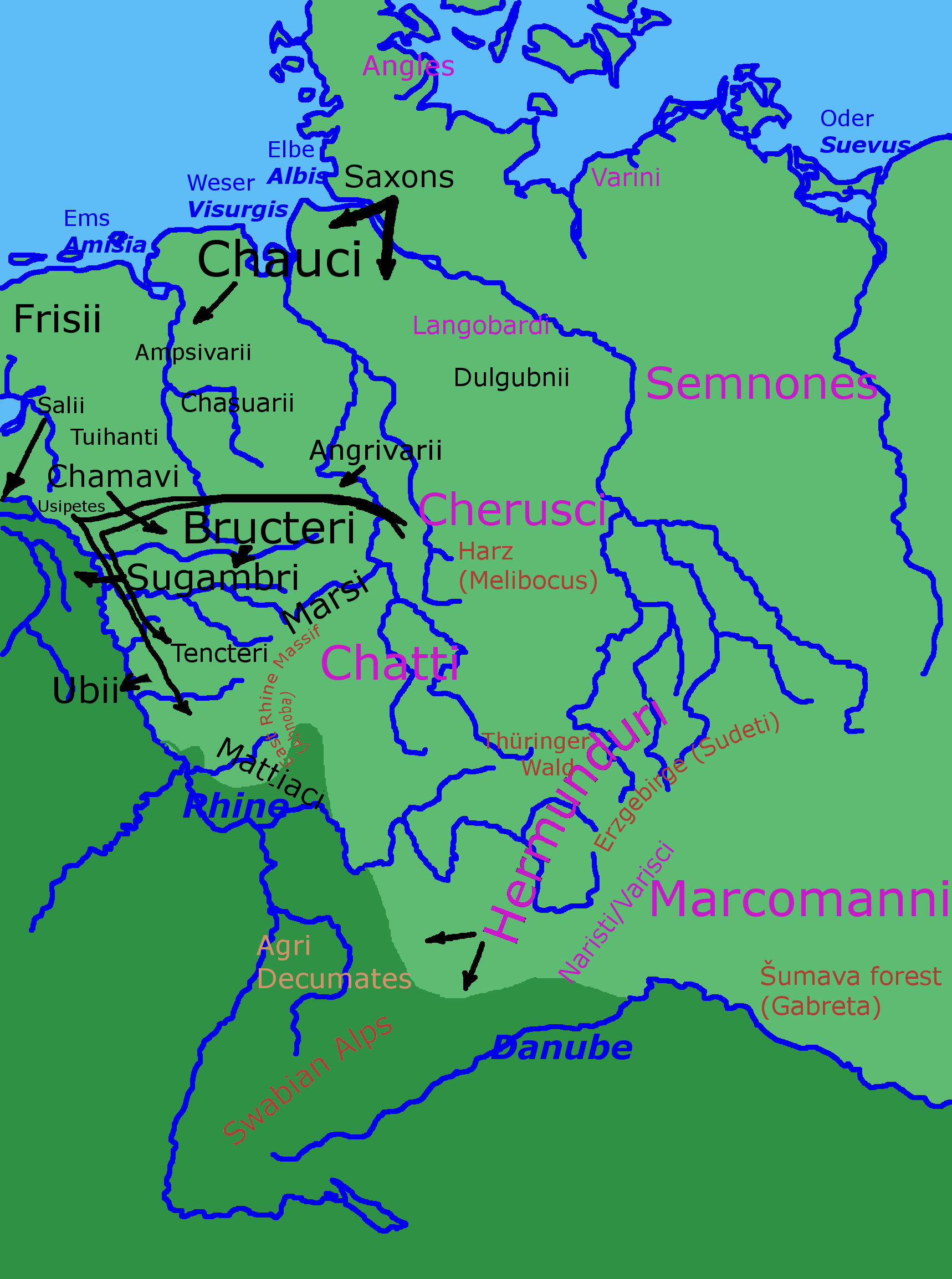 This is a map showing the least controversially placed tribes around 1 AD. It also attempts to show some of the direction in their movements. NOTE: as of 10 June 2020, I have made a better file for most purposes: "1st century Germani.png"